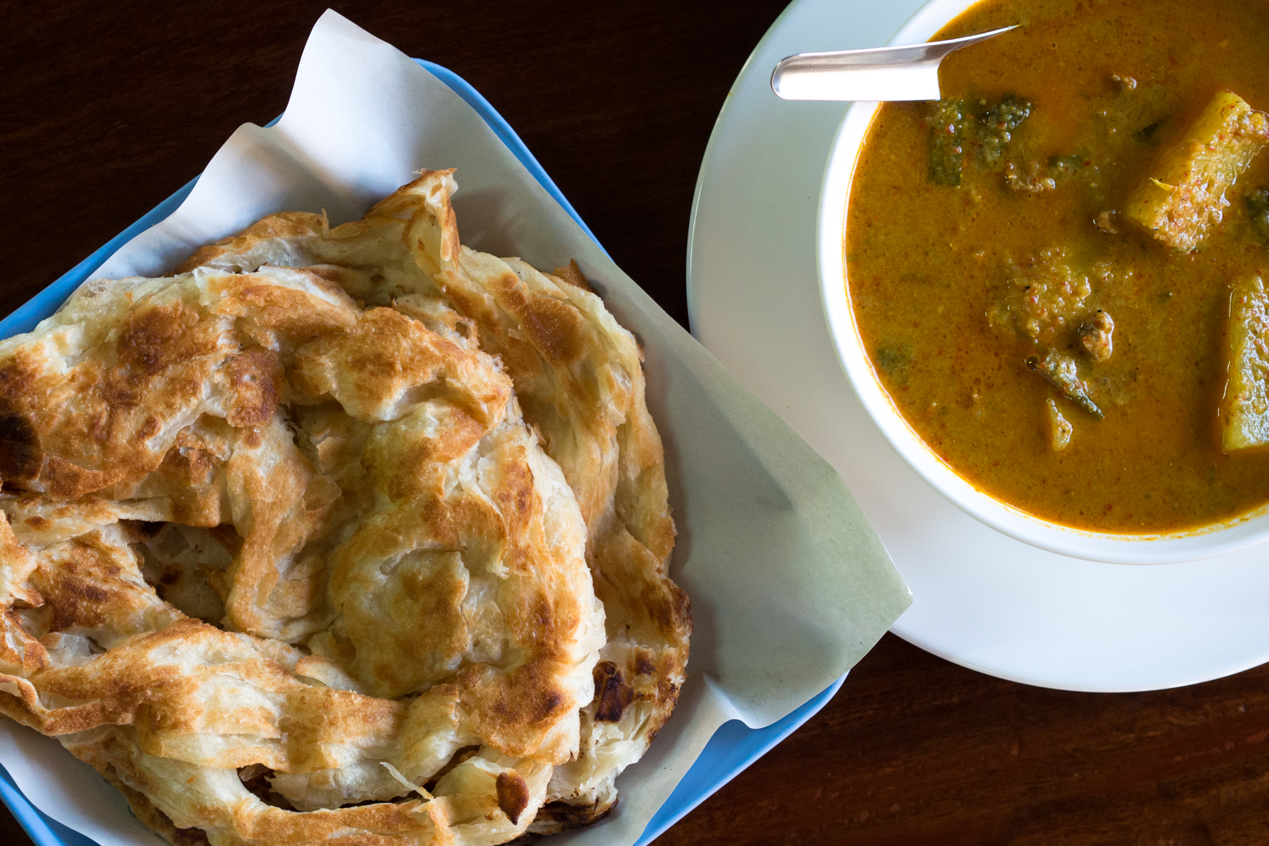 Thai-Muslim roti with beef curry in the city of Chiang Rai. After frying, the roti was fluffed by clapping it in between two hands while wrapped in a cloth. This type of roti is called roti titchu (Thai script: โรตีทิชชู่; lit. "roti tissue") in Thailand.